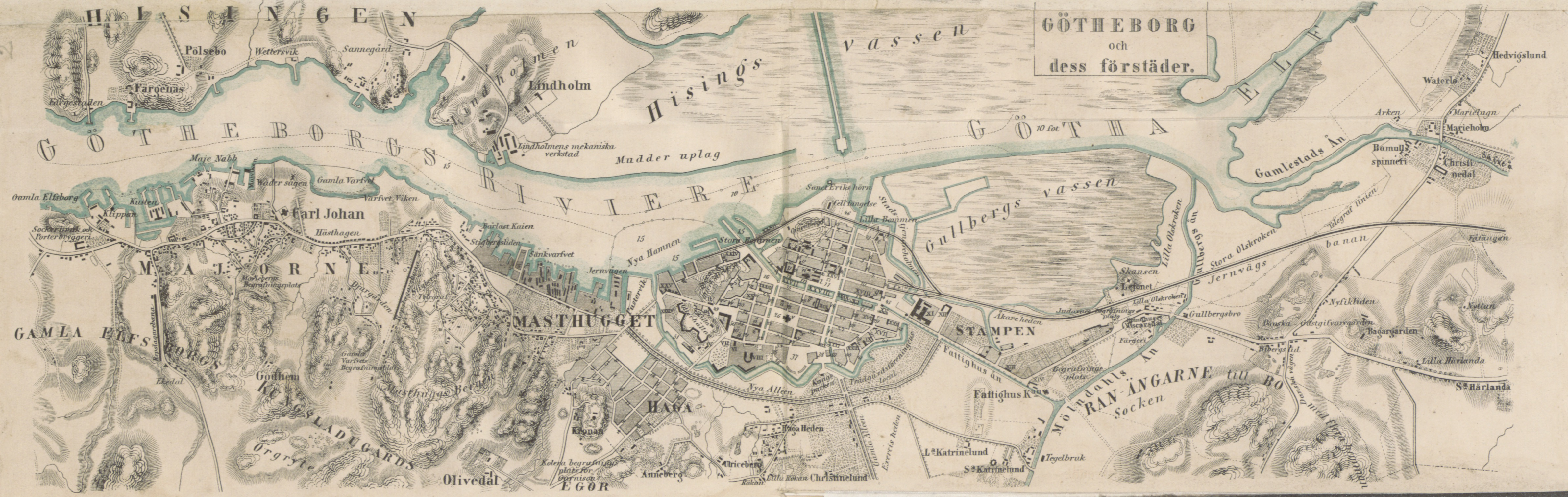 View this map on the BL Georeferencer service. Image taken from: Title: "Försök till beskrifning öfver Sveriges städer i historiskt, topografiskt och statistiskt hänseende, efter de bästa tryckta källor samt med många tillägg" Author: RUDBECK, Thure Gustaf - Customs Officer Shelfmark: "British Library HMNTS 10281.d.24." Page: 800 Place of Publishing: Stockholm Date of Publishing: 1855 Issuance: monographic Identifier: 003183062 Explore: Find this item in the British Library catalogue, 'Explore'. Download the PDF for this book (volume: 0) Image found on book scan 800 (NB not necessarily a page number) Download the OCR-derived text for this volume: (plain text) or (json) Click here to see all the illustrations in this book and click here to browse other illustrations published in books in the same year. Order a higher quality version from here. This file has been provided by the British Library from its digital collections. This file is from the Mechanical Curator collection, a set of over 1 million images scanned from out-of-copyright books and released to Flickr Commons by the British Library. Please add the Flickr page URL for the image Please add the British Library system number for the book This tag does not indicate the copyright status of the attached work. A normal copyright tag is still required. See Commons:Licensing.